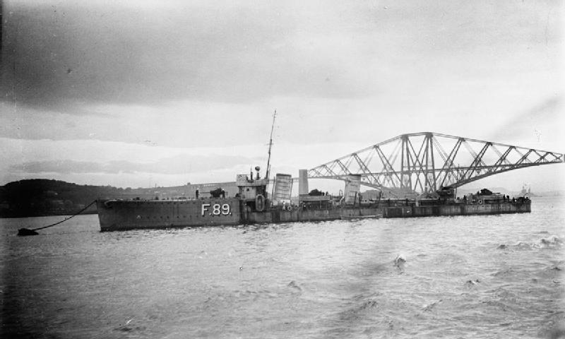 Photograph of British Modified R class destroyer HMS Tristram.